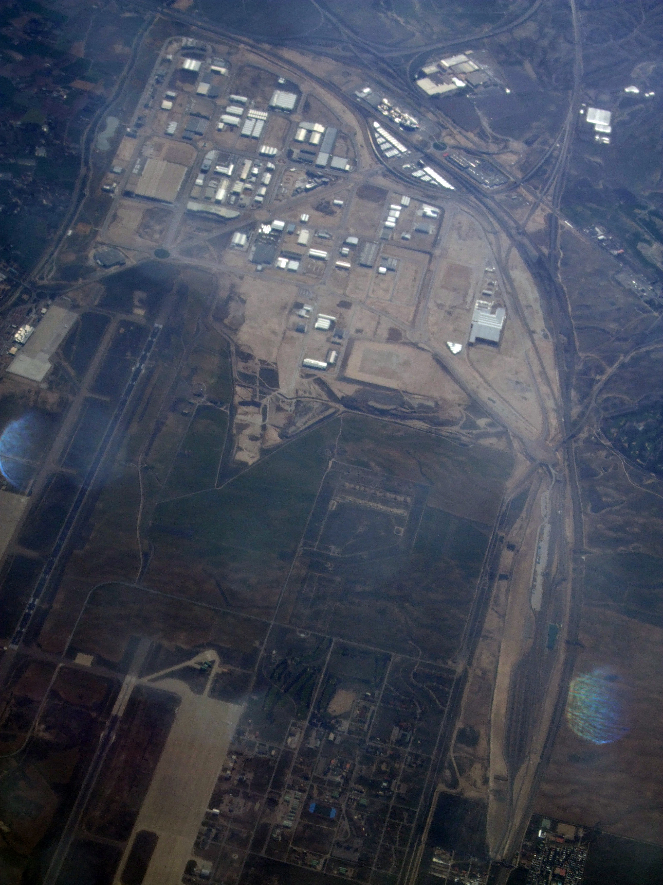 Aerial photograph from approx. 10,000 m / 33,000 ft. altitude of Zaragoza Airport in Spain — Runways 12L/30R (left) and 30L (bottom) can be seen on board this flight from Berlin-Schönefeld (SXF/EDDB) to Málaga (AGP/LEMG).